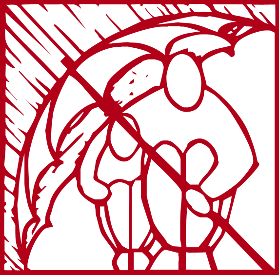 Logo of the Pestalozzi-Stiftung Hamburg